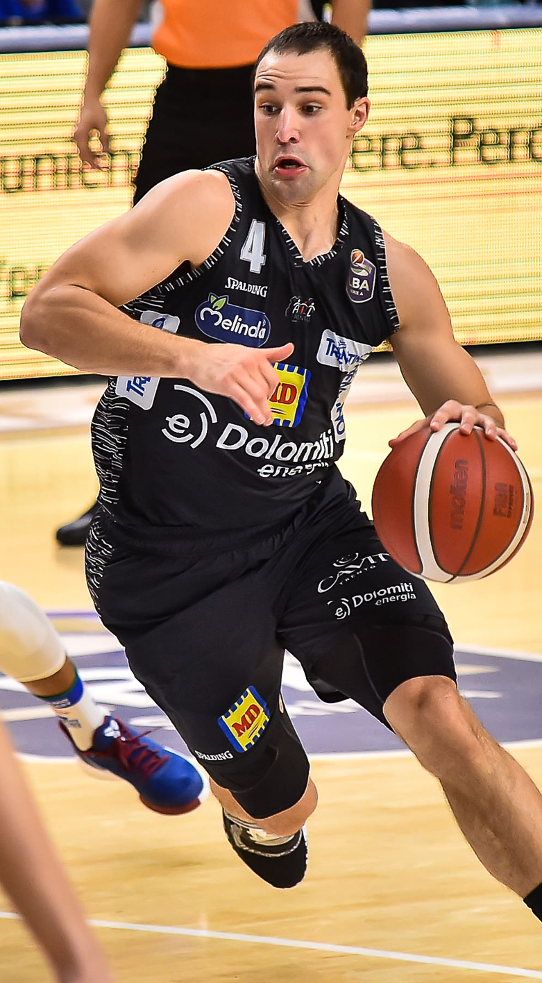 Craft Aaron Banco di Sardegna Dinamo Sassari - Dolomiti Energia Trentino LegaBasket Serie A LBA Poste Mobile 2019/2020 Sassari 25/01/2020 Foto Ciamillo-Castoria